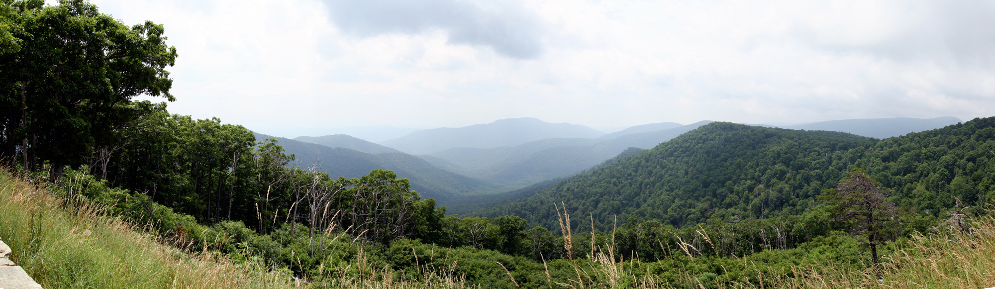 View from Pinnacles Overlook on Skyline Drive, Summer 2007. Photo by W.Grotophorst